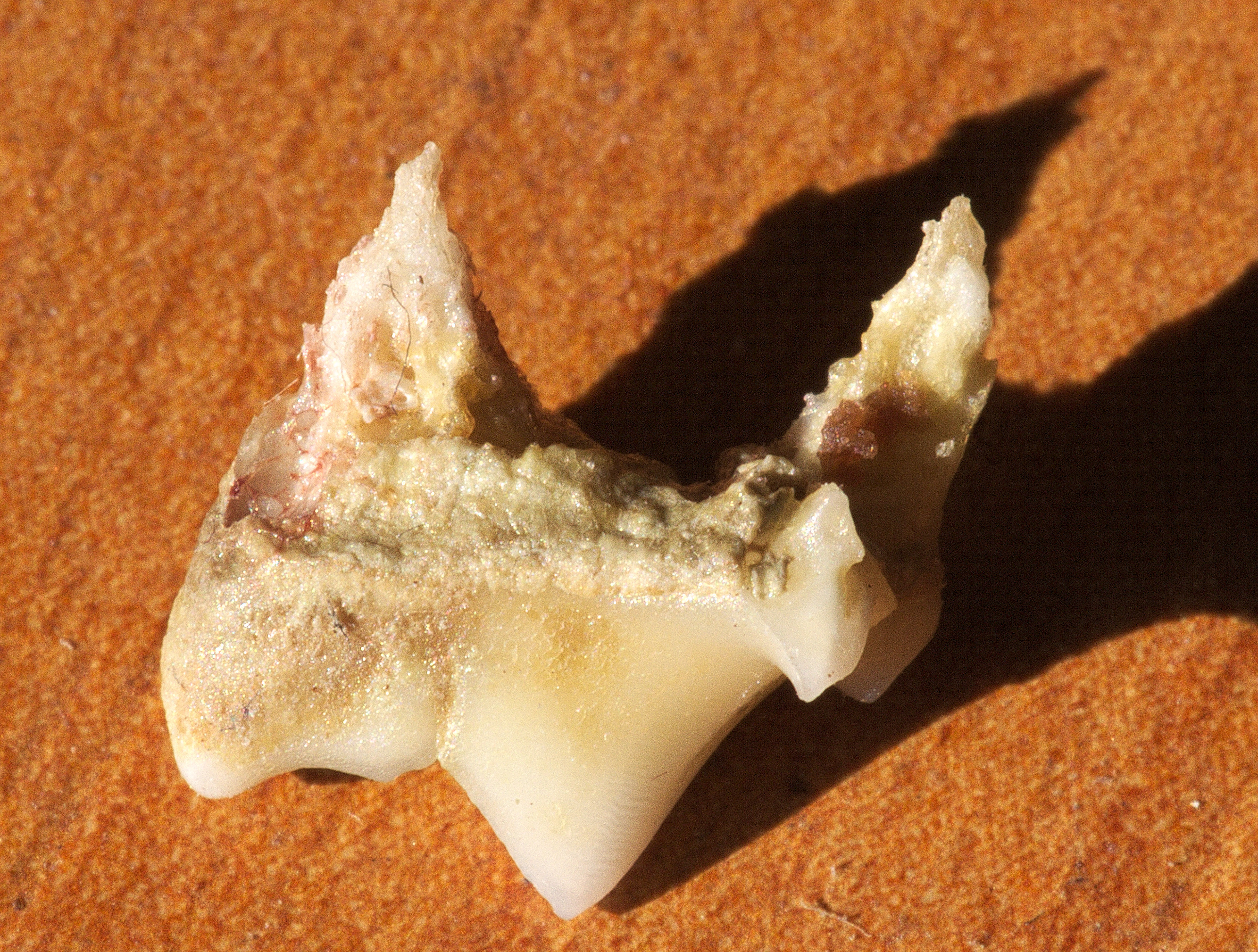 Cat teeth affected by FORL